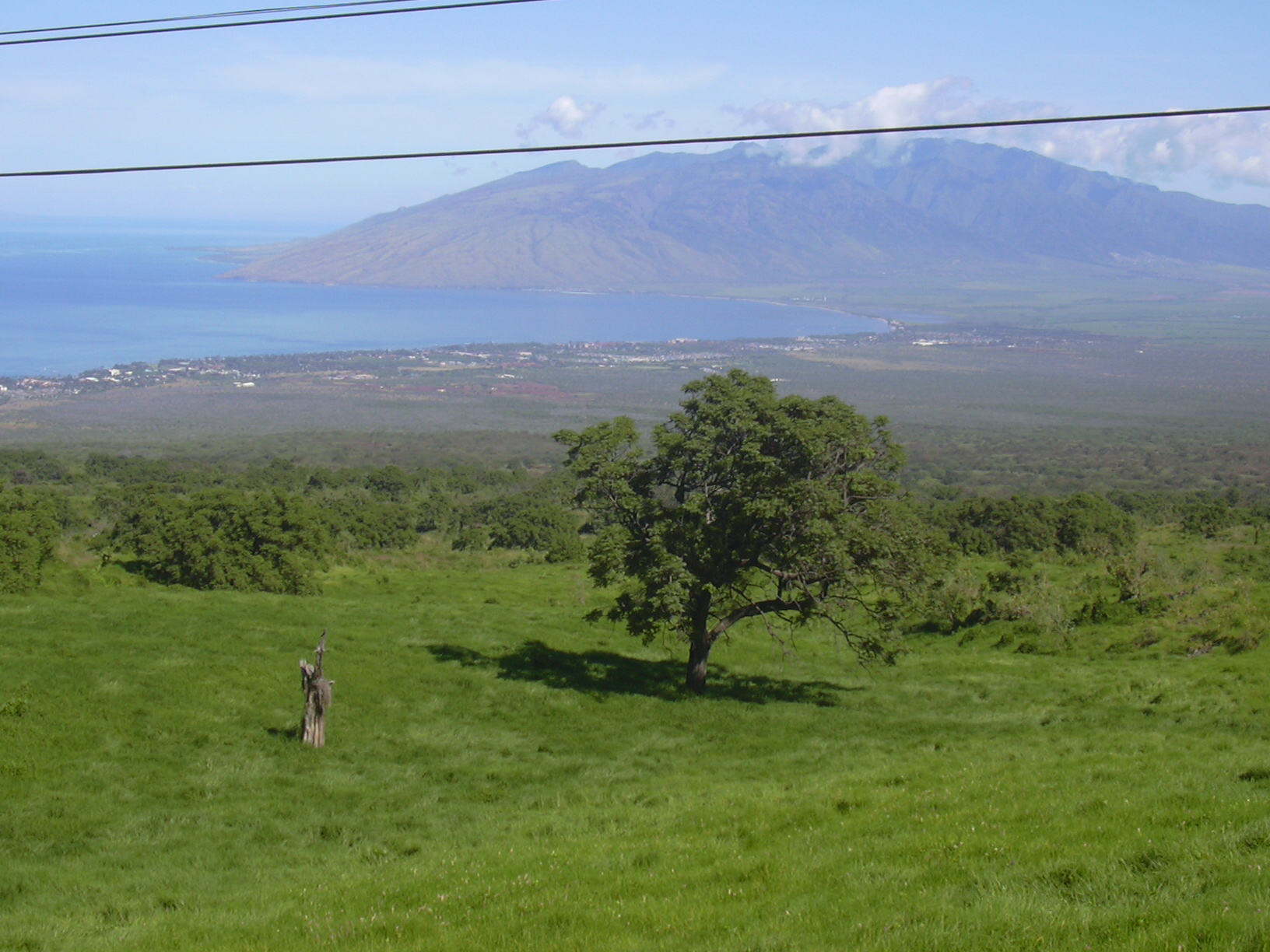 Melia azedarach (habit). Location: Maui, Keokea